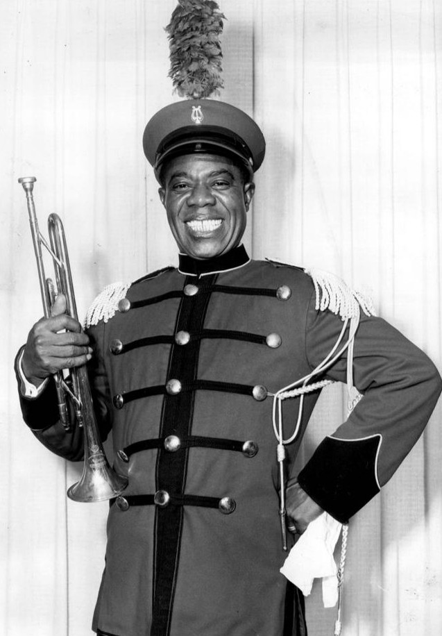 Publicity photo of Louis Armstrong from Producers' Showcase, 1956. Armstrong played a bandeader in the production of The Lord Don't Play Favorites.